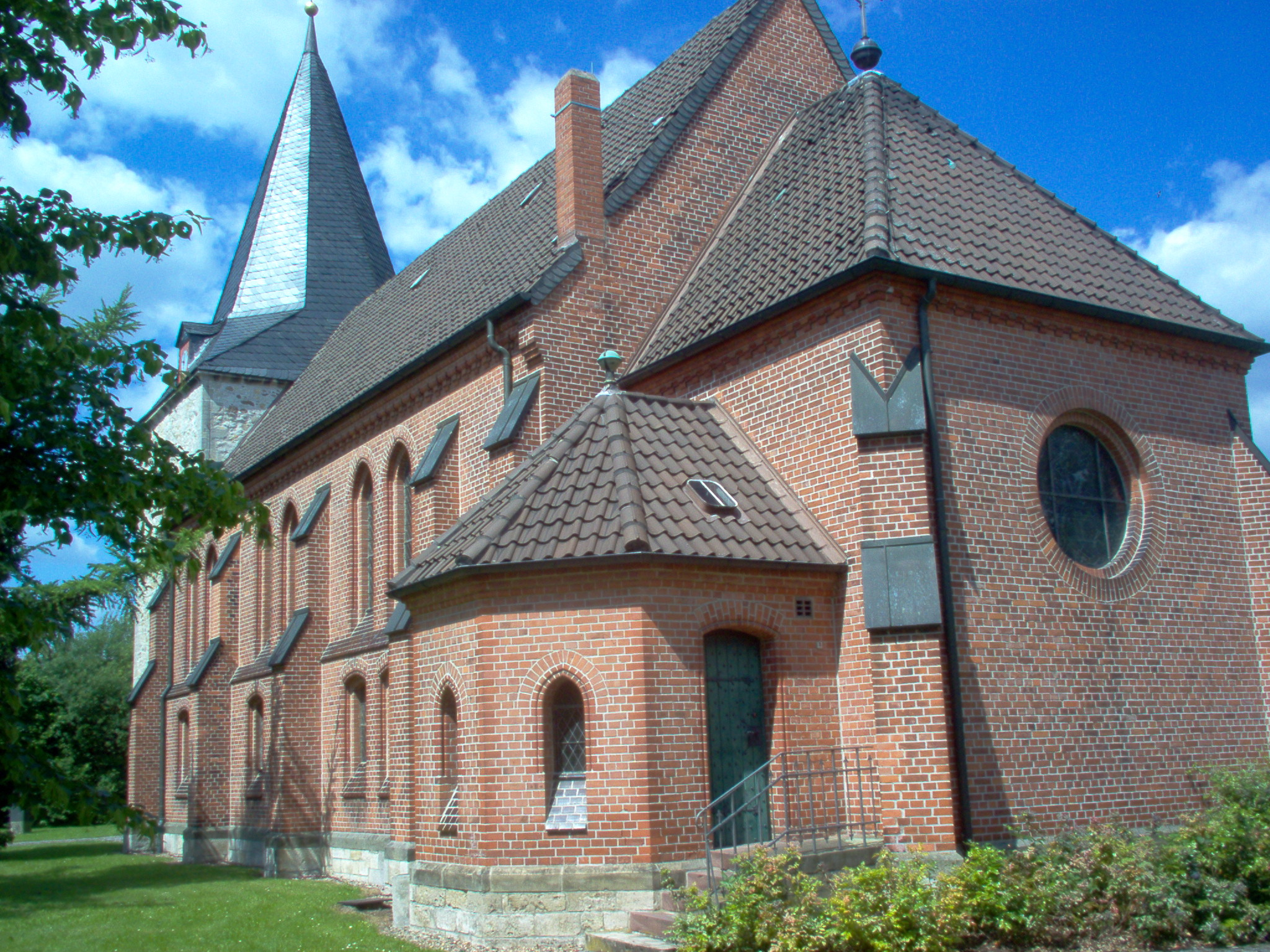 southeast view of the Rethen church (Vordorf, Lower Saxony, Germany)